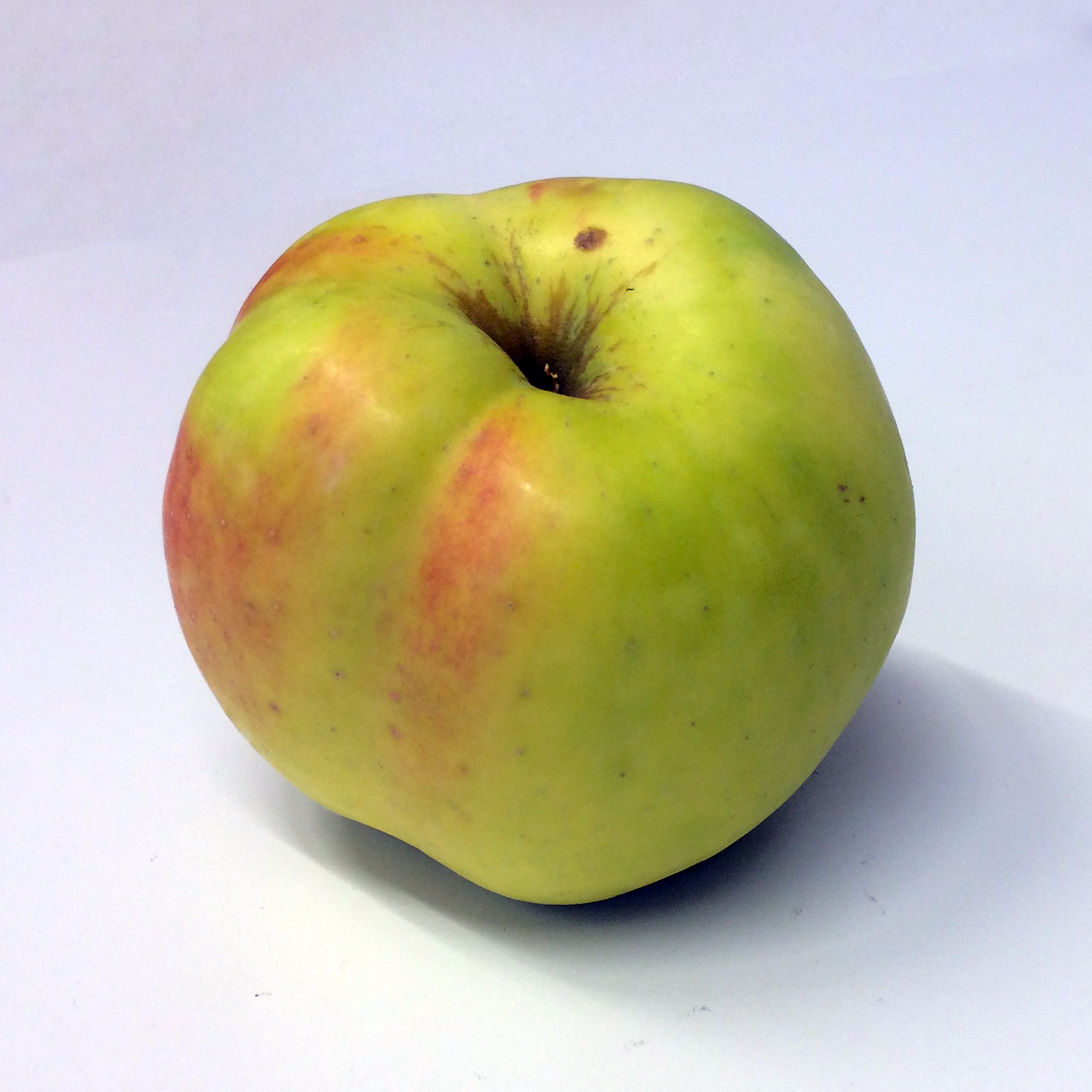 Apple of the cultivar Filippa, photographed in conjunction with the Apple Festival at Nordiska museet, Stockholm, Sweden in September 2014.